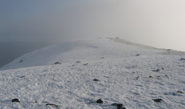 Carn Gorm Summit. The summit of Carn Gorm. Taken with some difficulty on account of the wind and low temperatures, as well as the desire to be somewhere less exposed come the next blizzard. Taken from the summit, looking to the site of the trigpoint, now toppled.